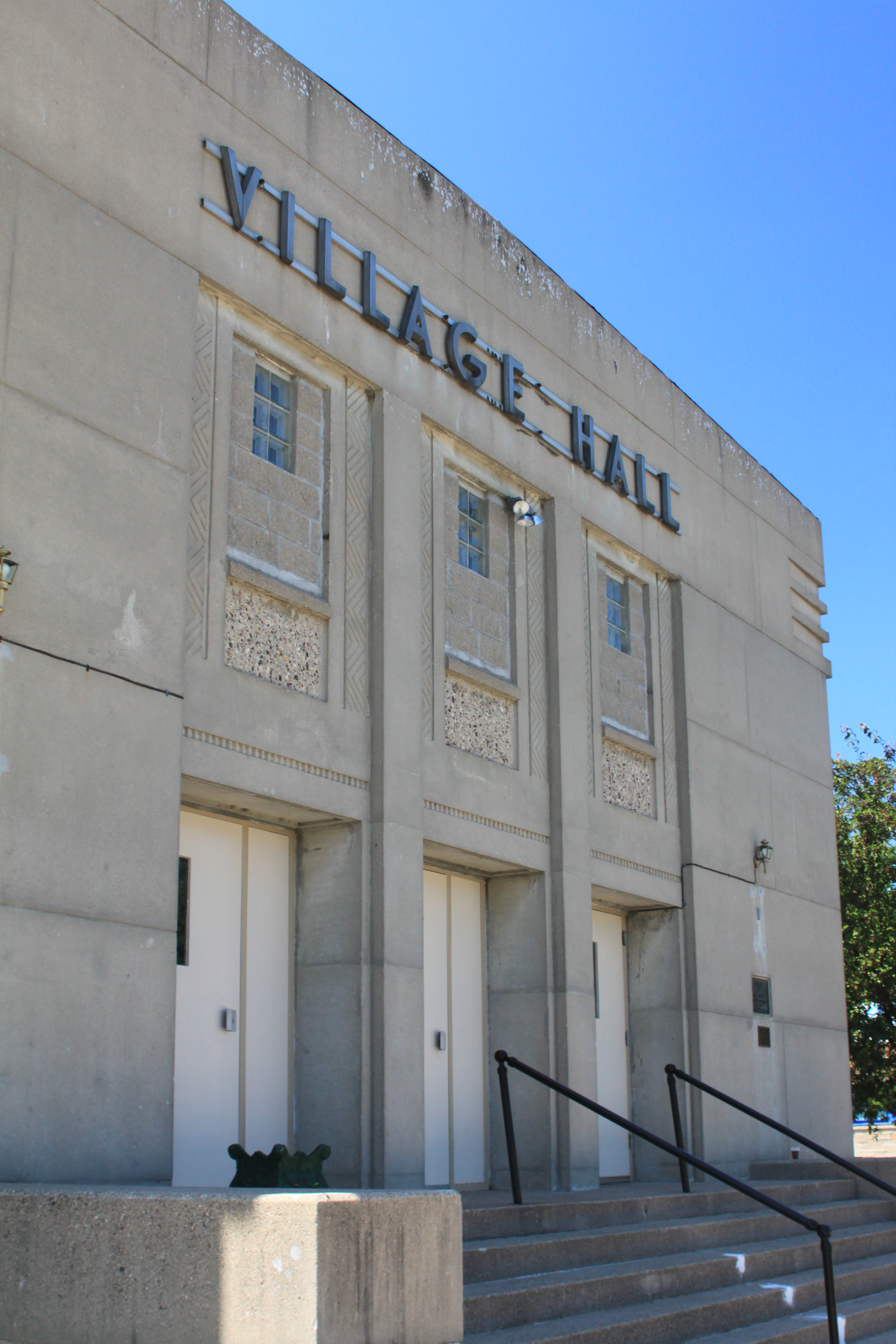 Village Hall in Waverly, Minnesota. This art deco WPA building was built in 1939 and is on the National Register of Historic Places. Contrary to what is implied by the name this building does not house city offices, but an auditorium which is rented and used for special events.